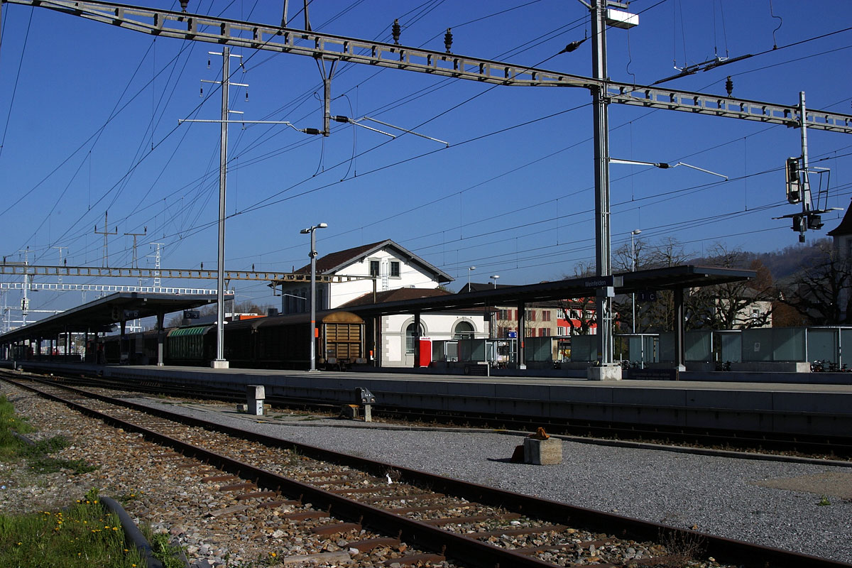 Weinfelden railway station